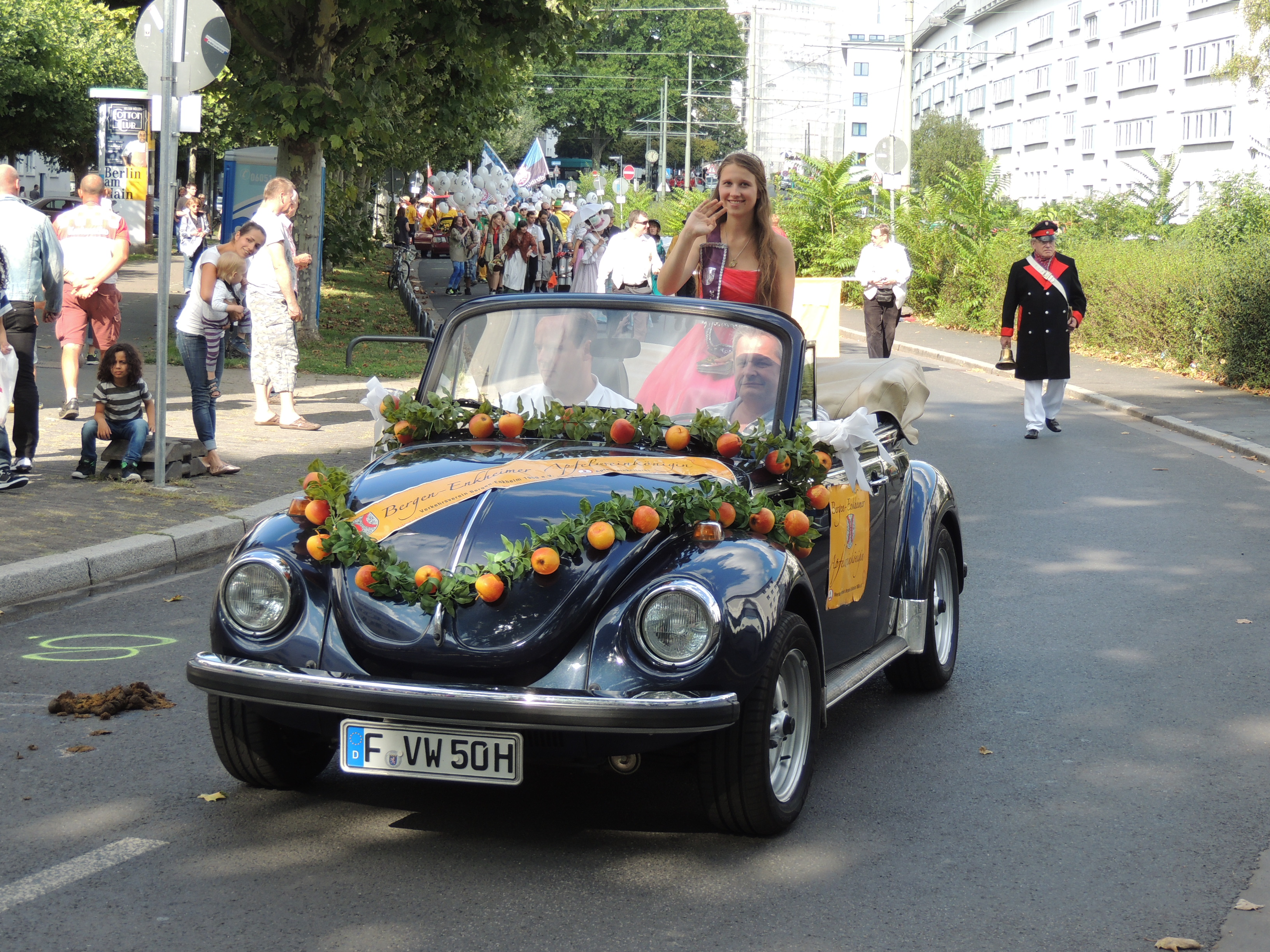 VW 1303 Cabrio with the apple wine queen of Frankfurt-Bergen-Enkheim in the Bernemer Kerb procession in the Bornheimer Hang settlement, in the Wittelsbacher Allee in Frankfurt am Main-Bornheim, August 9th, 2014